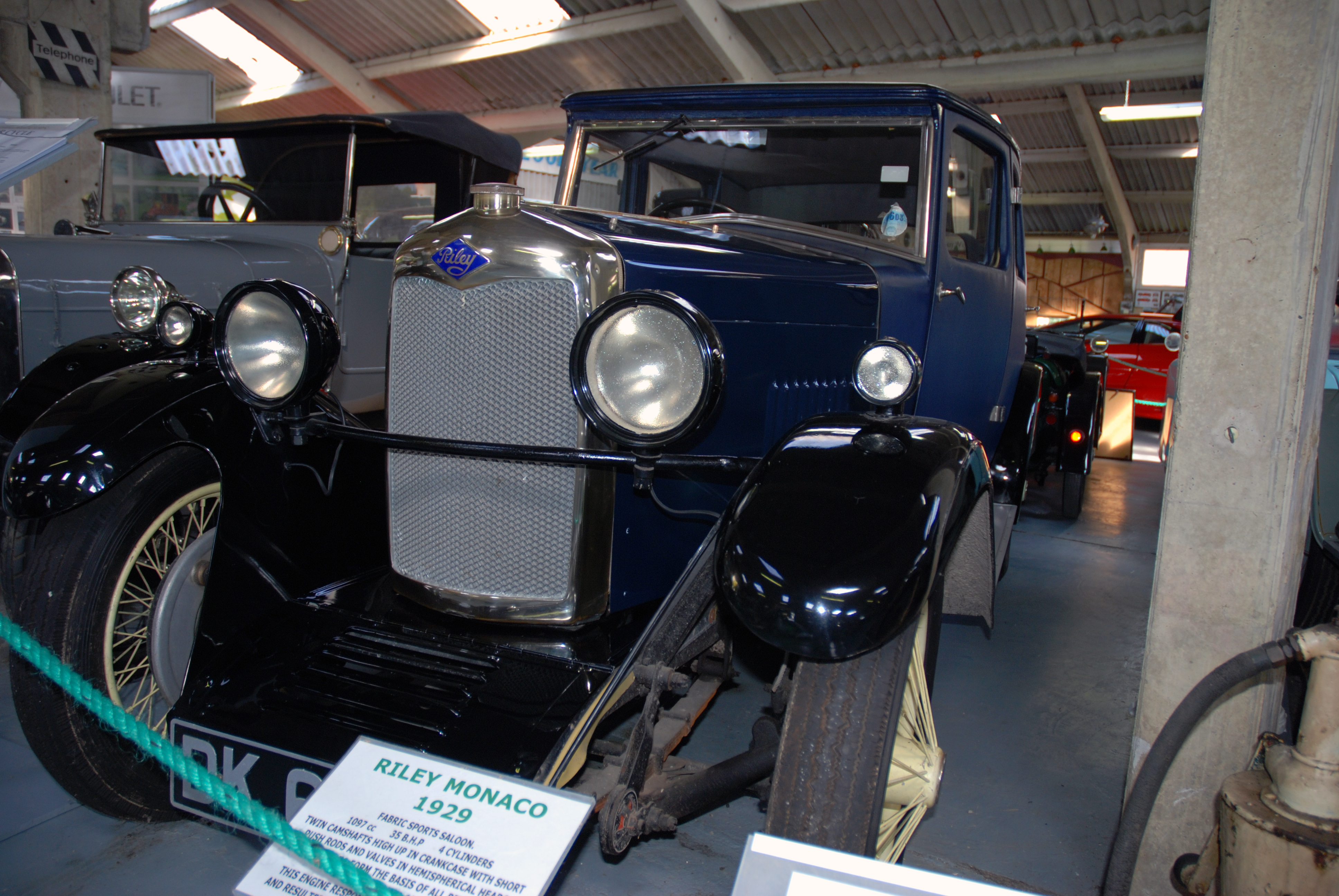 1929 Riley Monaco Fabric sports saloon, 1097cc 35bhp, 4 cylinders, twin camshafts high in crankcase with short push rods and valves in hemispherical headBentley Motor Museum Oct 2007